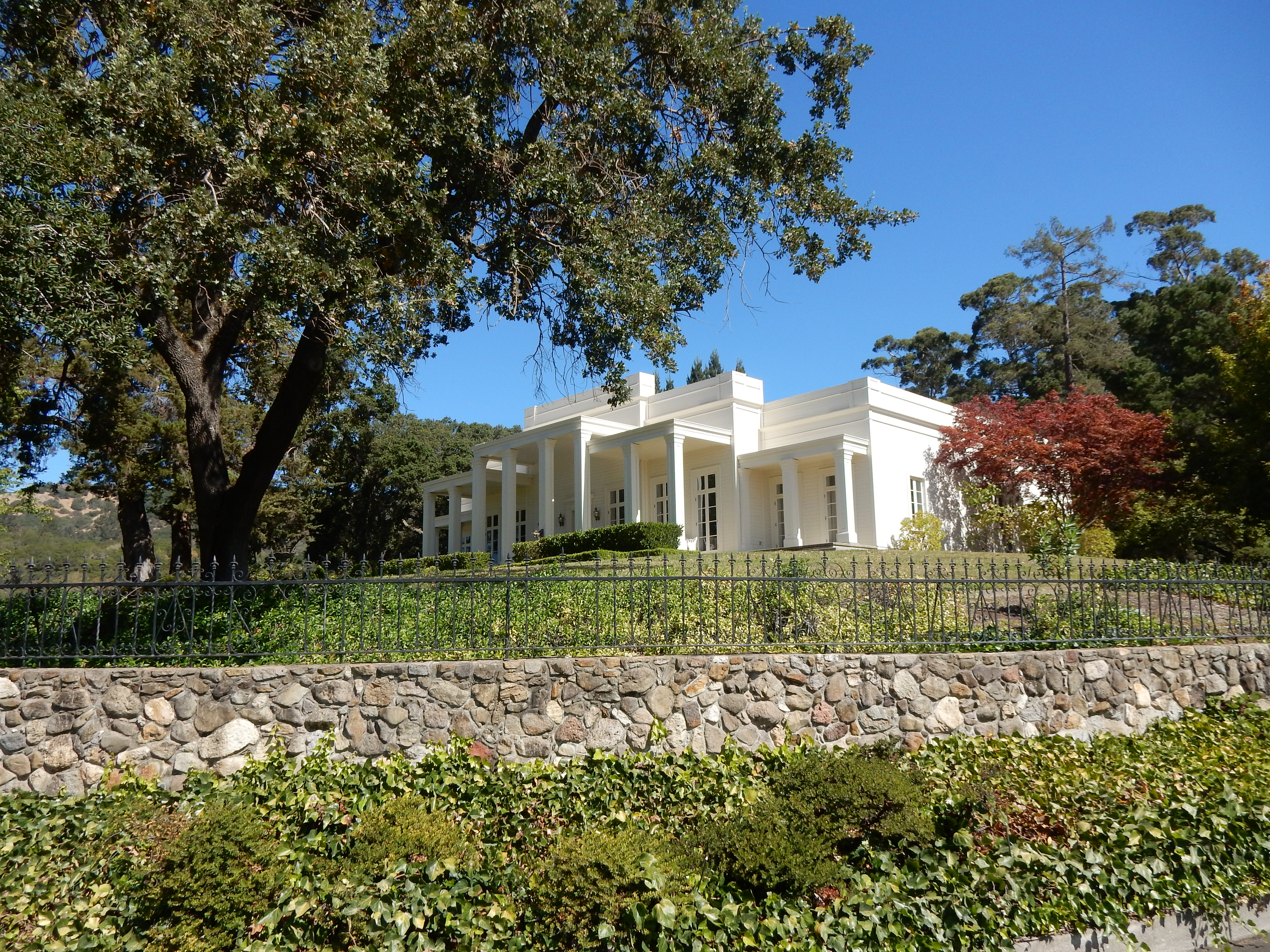 This is what you will see from the entry road leading up to the villa.